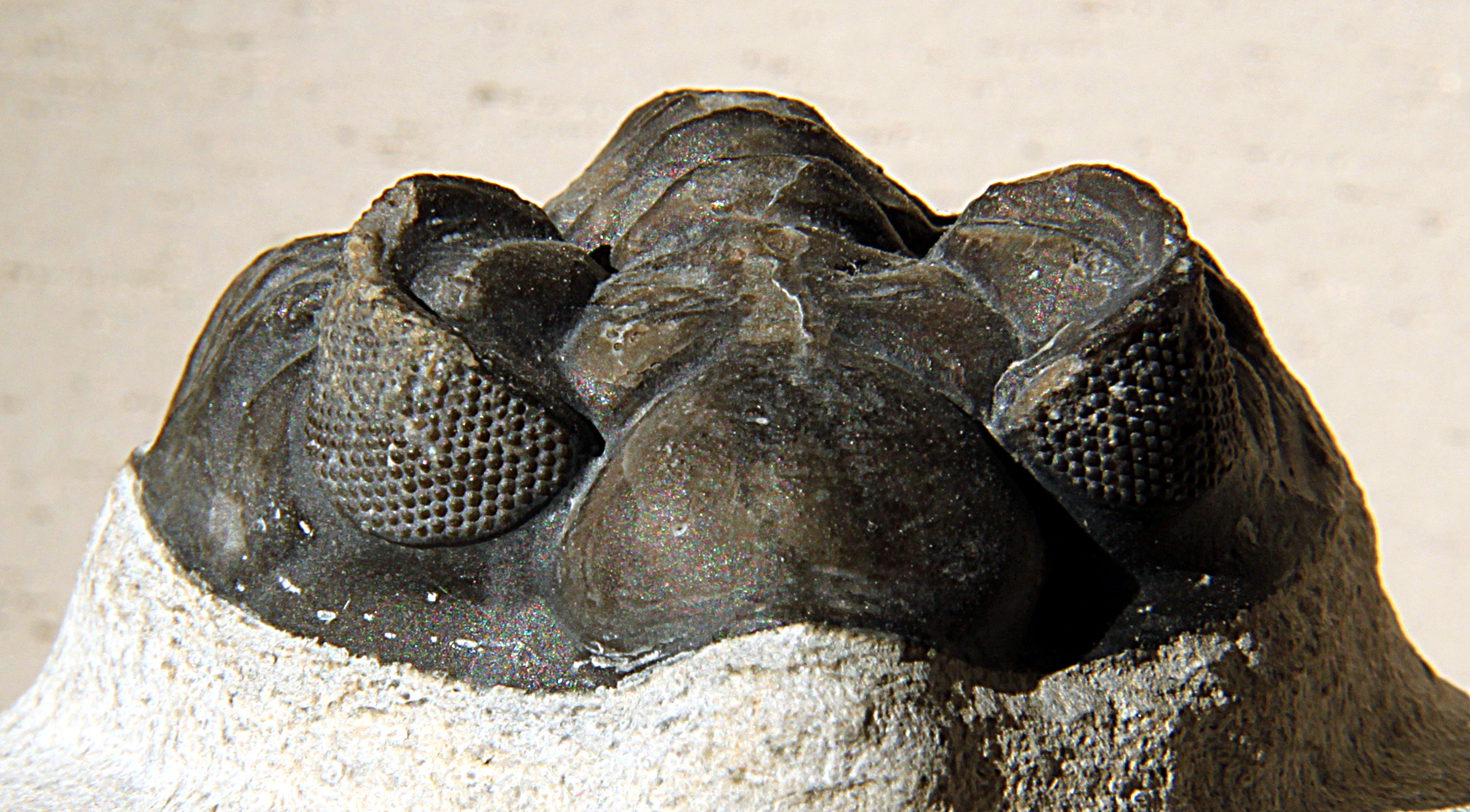 Cephalon of Coltraneia oufatenensis, frontal view, collected near Oufaten, Marokko, from the Middle Devonian, total length of the specimen 69mm